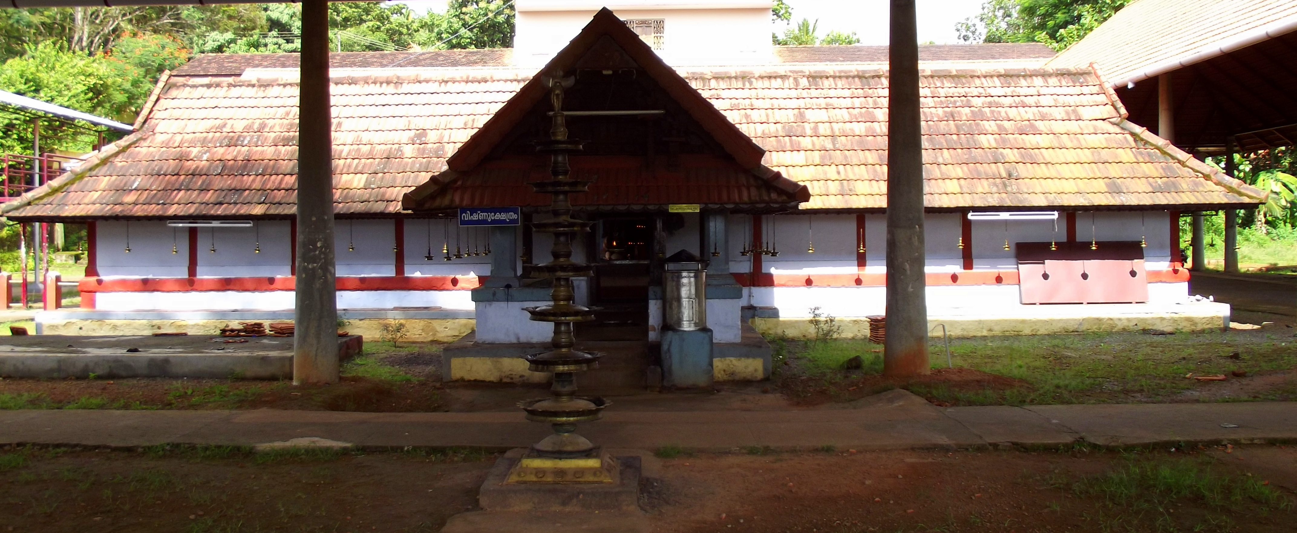 പനച്ചിക്കാട് ക്ഷേത്രം This media file is uploaded with Malayalam loves Wikimedia event - 3.